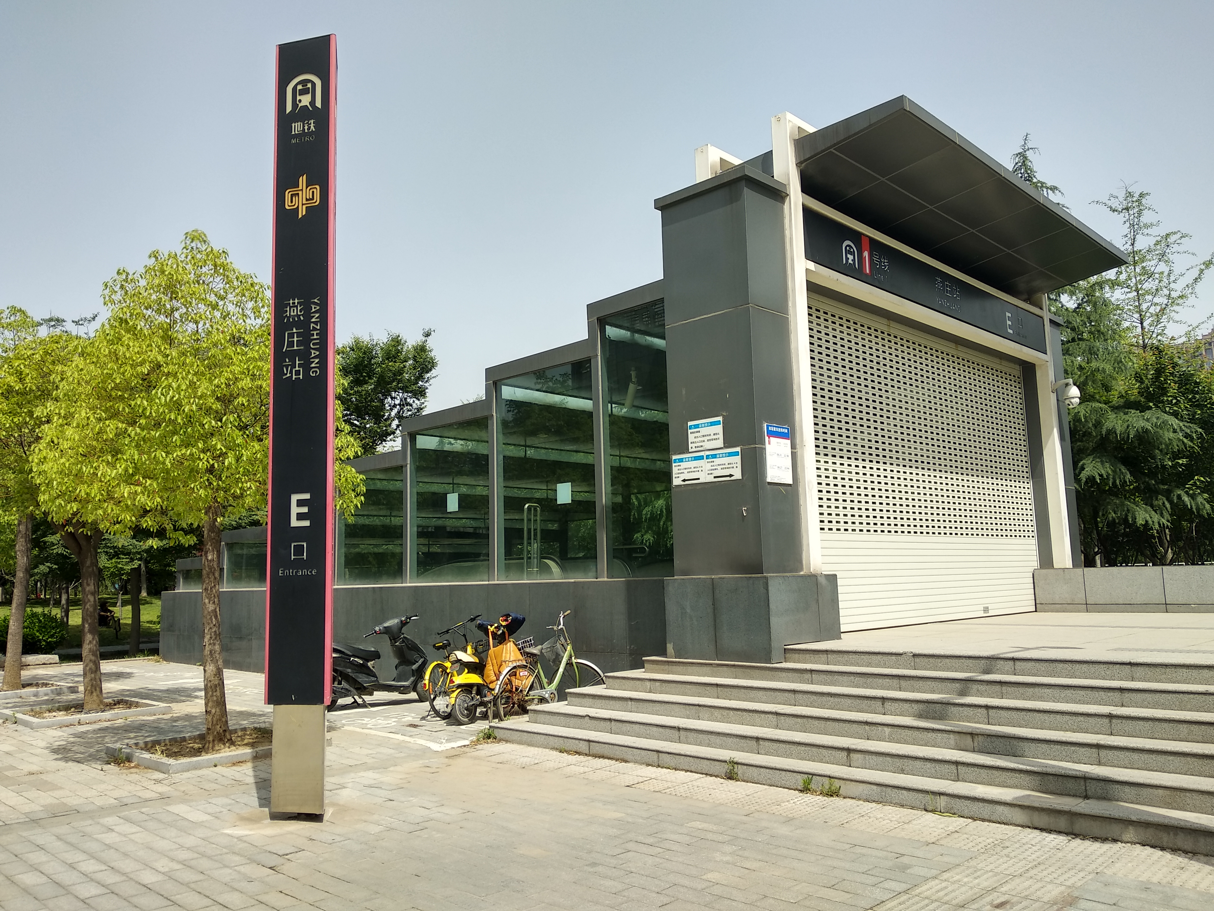 Not yet opened...